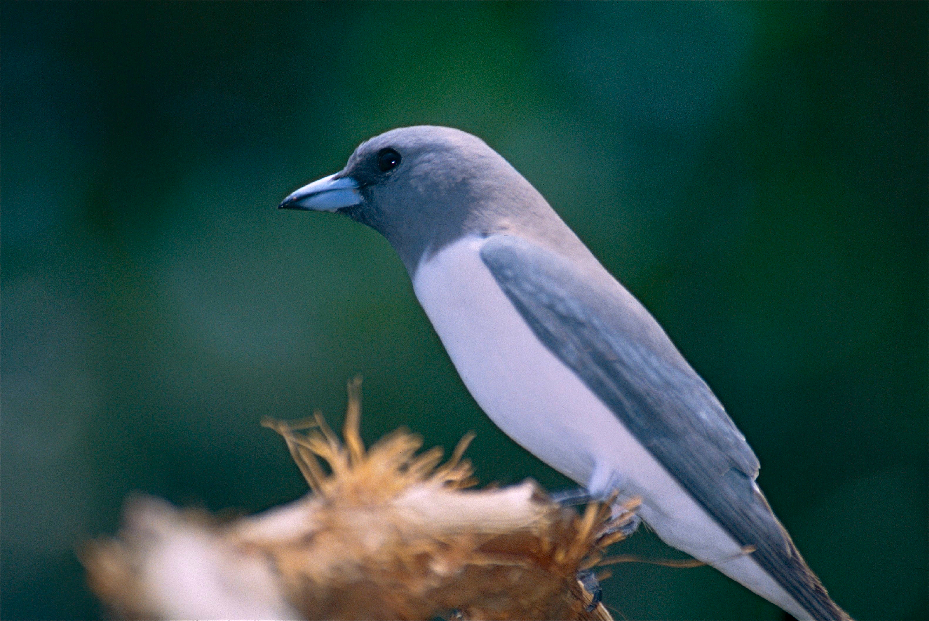 Rainforest Habitat, Port Douglas, North Queensland, AUSTRALIA Scanned Slide from Nov 2000